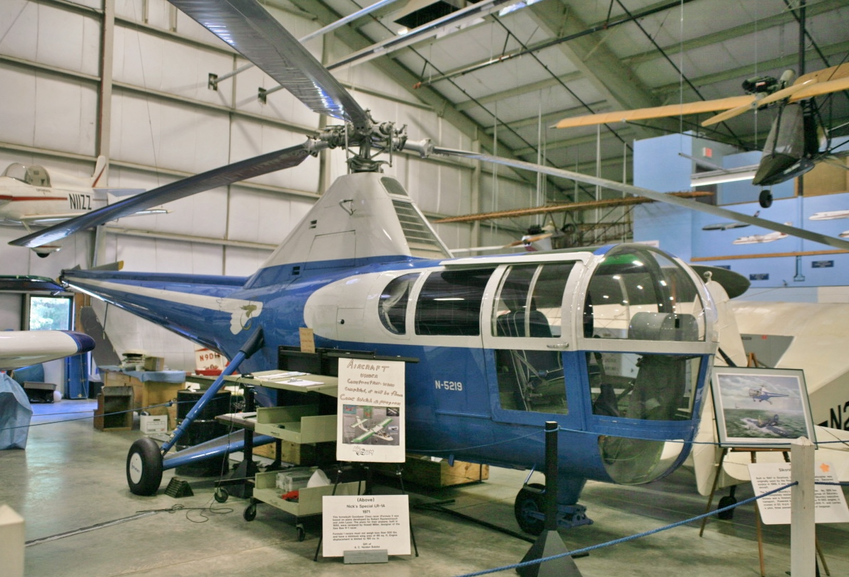 Sikorsky S-51 (H-5A) Executive Transport - Built in 1947 in Stratford, CT, this helicopter was originally used by the Royal Canadian Air Force. Declared surplus in 1968, it was registered N5219 in the USA as a civilian aircraft. The S-51 was Sikorsky's first civilian helicopter.